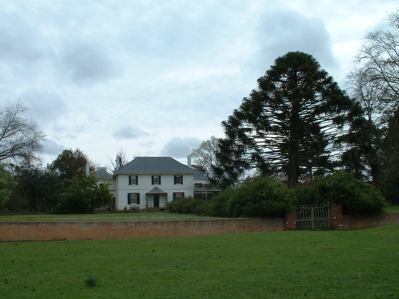 The house at Brickendon Estate, near Longford, Tasmania. Listed as a part of the World Heritage Australian Convict Sites.